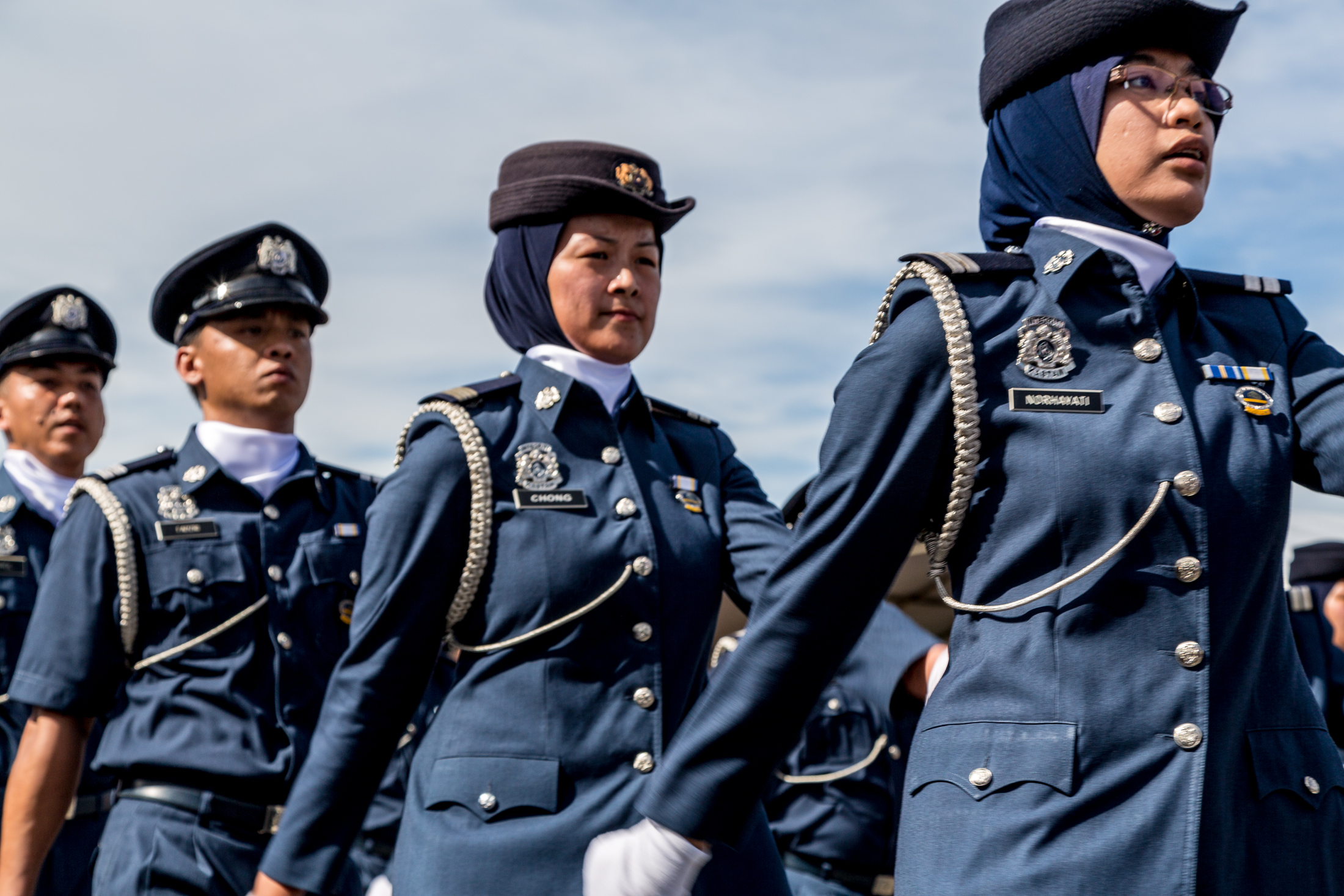 Kota Kinabalu, Sabah, Malaysia: Parade during Celebrations of Hari Merdeka 2013 in Likas on August 31, 2013